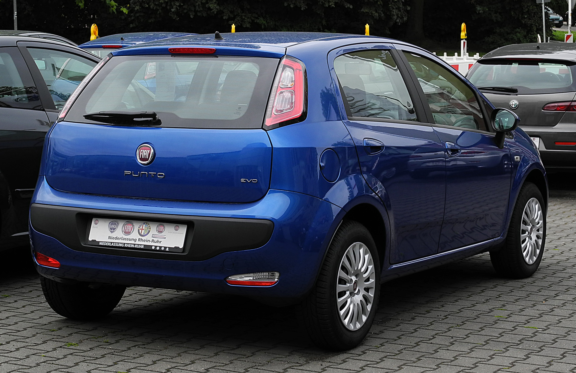 Fiat Punto Evo 1.4 8V Start+Stopp Dynamic (Facelift)